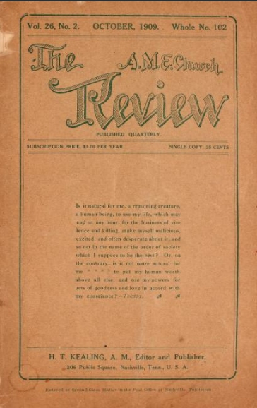 Cover of the A.M.E. Church Review, October 1909 issue